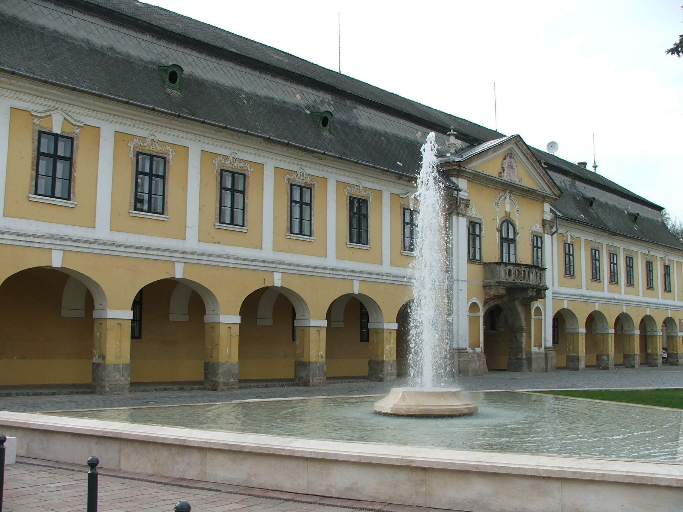 City hall of Esztergom, Hungary